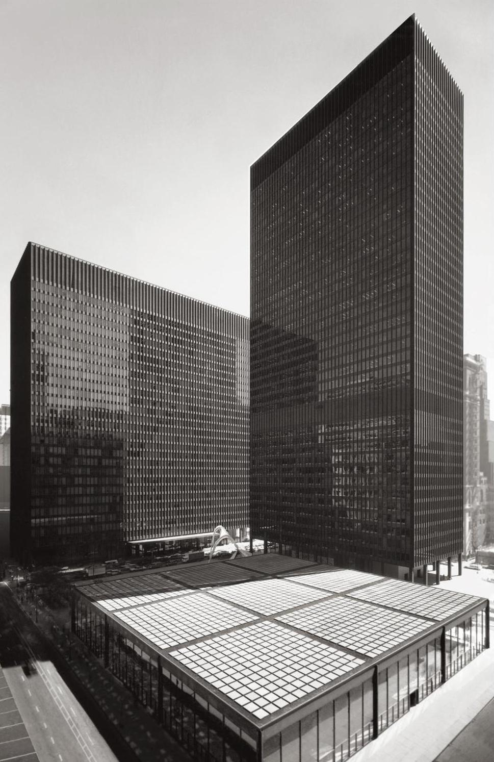 View of Federal Center in Chicago, Illinois